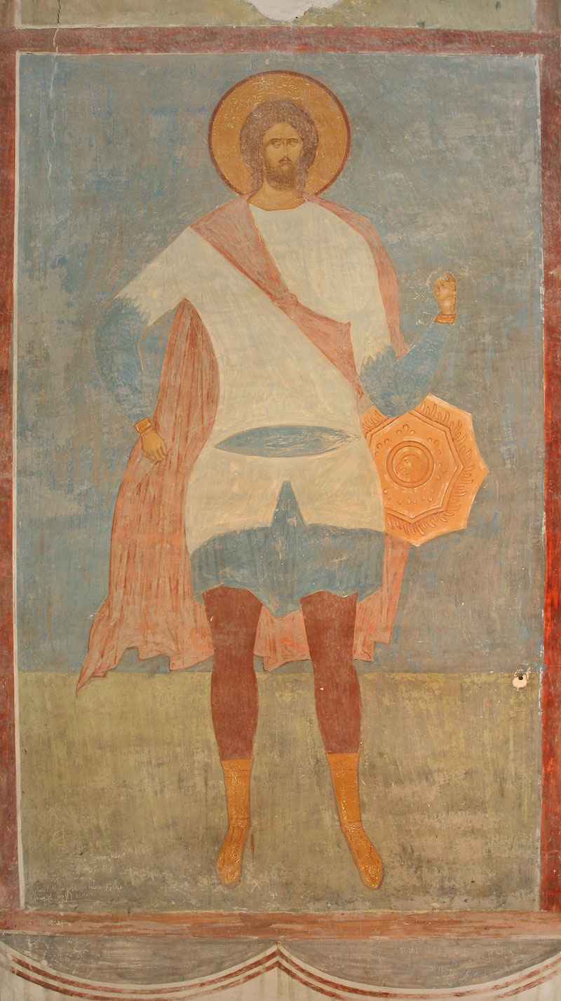 Dionisij. Fresco from Ferapontov Monastery's Rozhdestvensky Sobor: Nikira Martyr.